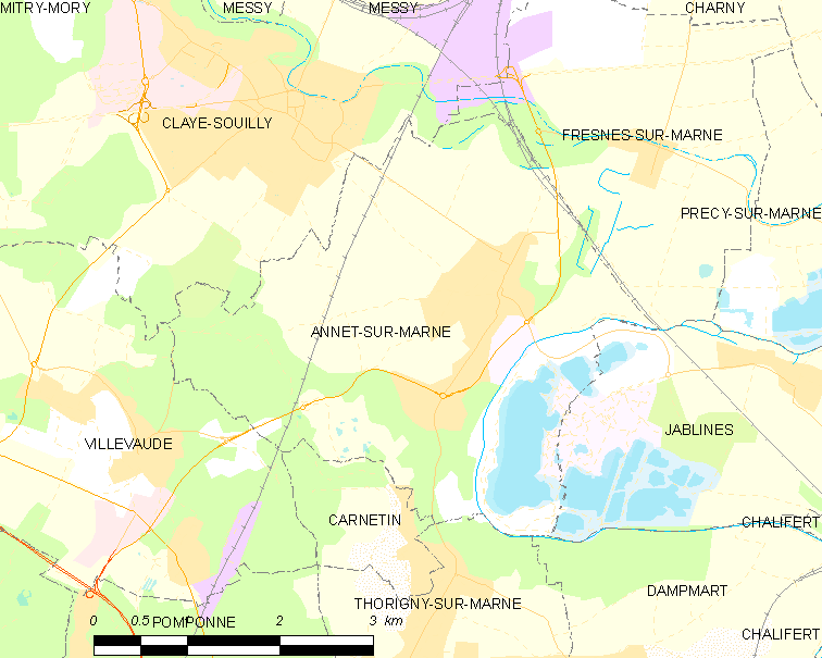 Map of French municipality Annet-sur-Marne